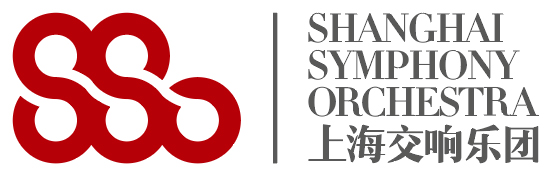 The new logo of the Shanghai Symphony Orchestra.